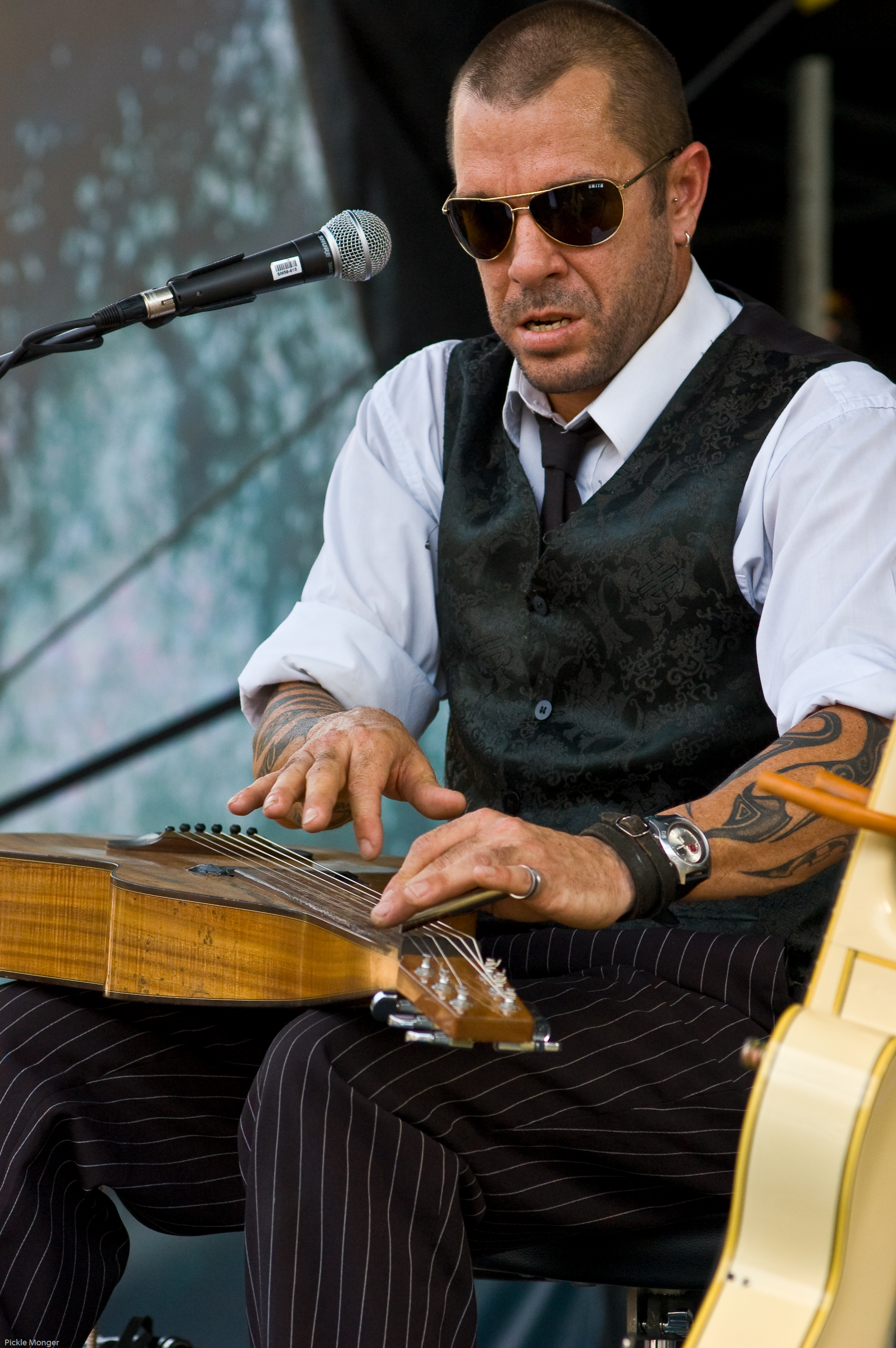 Mason Rack is playing slide on a Weissenborn at the Mont-Tremblant International Blues Festival on July 11, 2010.